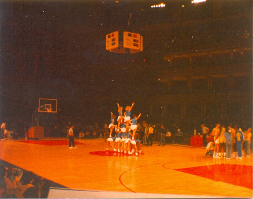 Portsmouth FC Basketball Club v Kingston Kings, National Cup final, Royal Albert Hall, London, December 14th 1987. Portsmouth's cheerleaders form a pyramid during a time-out.